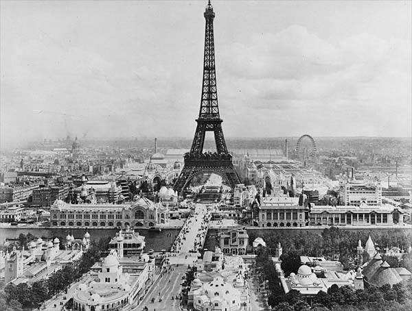 Eiffel Tower in 1900 Flickr data on 2011-08-13 Tags: old picture, Eiffel Tower, Paris, Public Domain License: CC BY-SA 2.0 User: paukrus Ruslan